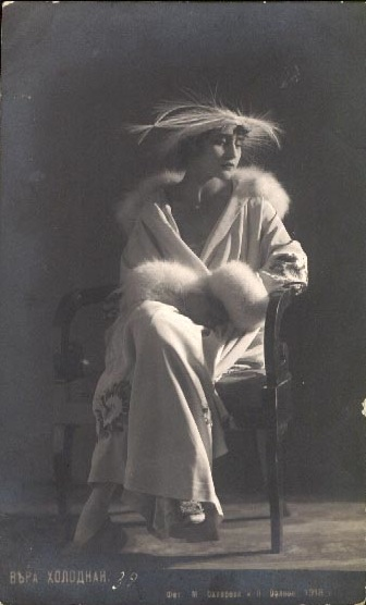 Russian actress Vera Kholodnaya, photo taken in 1918